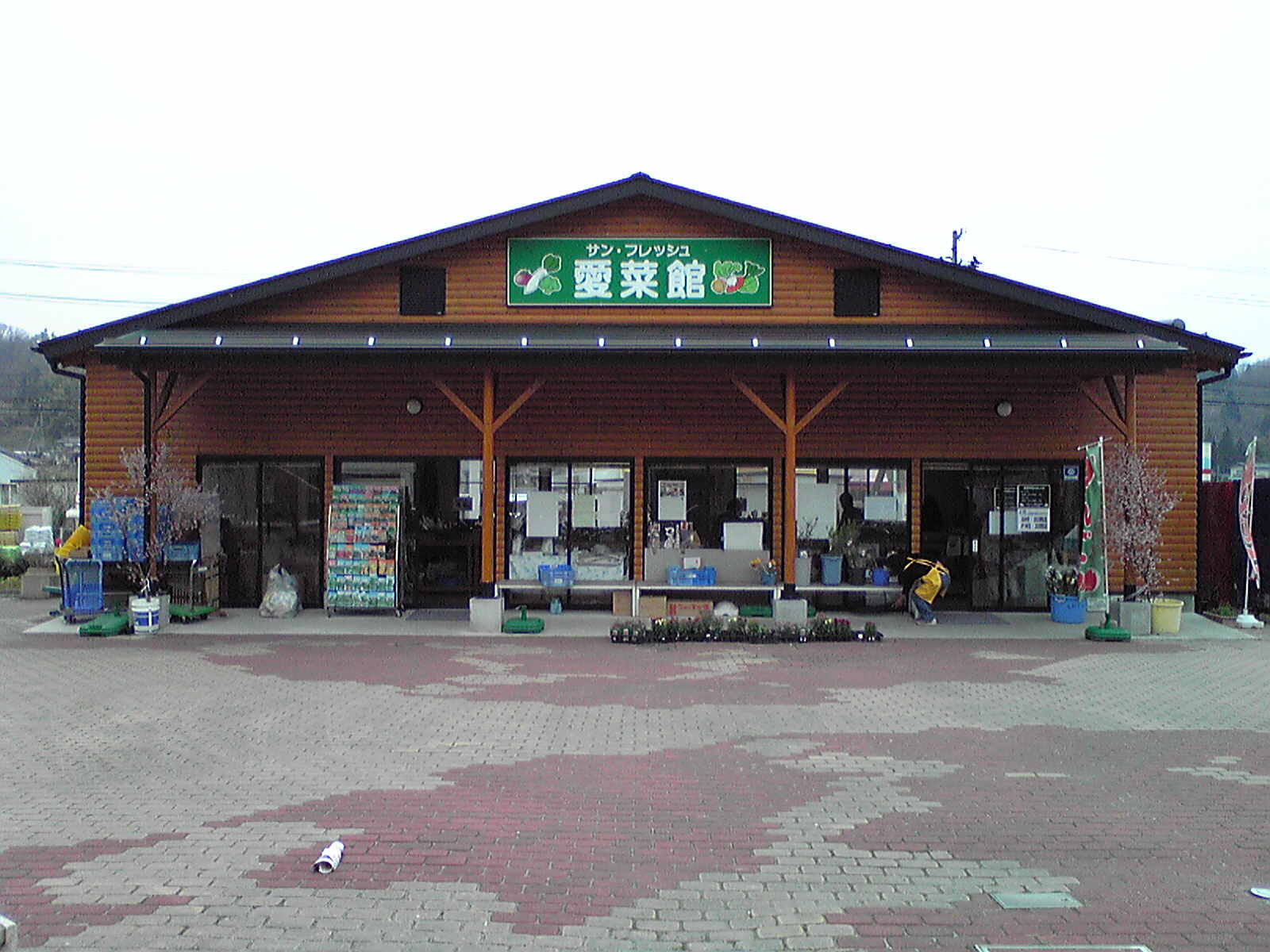 Farm products store "Aisaikan" at Michinoeki Kawamata in Kawamata Town, Fukushima Prefecture, Japan